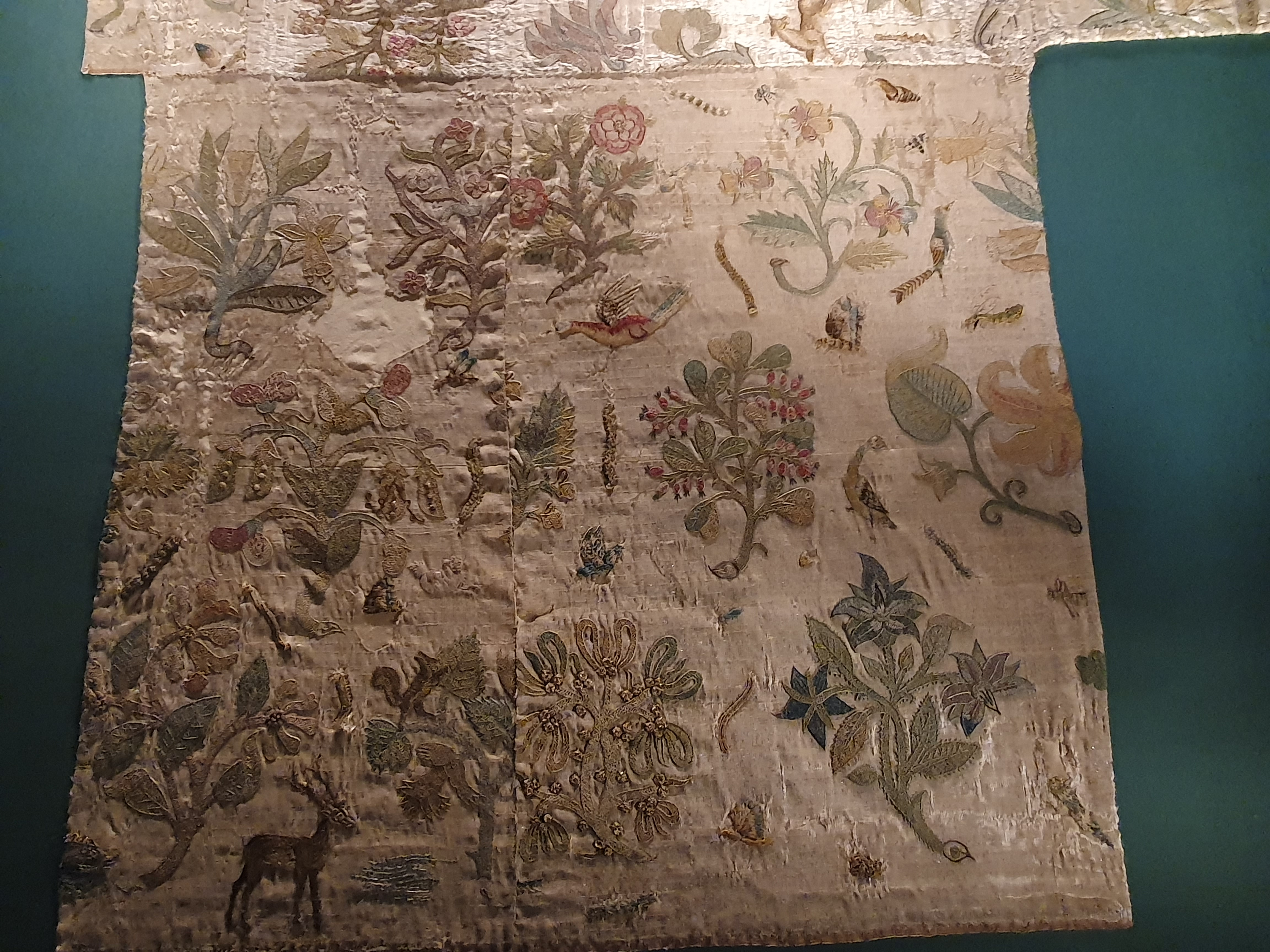 A close up of the left-hand-side of the Bacton Altar Cloth, showing mistletoe, roses, peas in the pod, and various animals like a deer, birds and caterpillars.